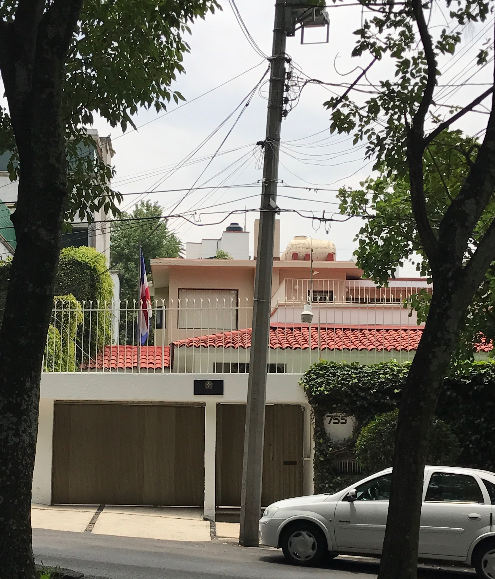 Embassy of the Dominican Republic in Mexico City